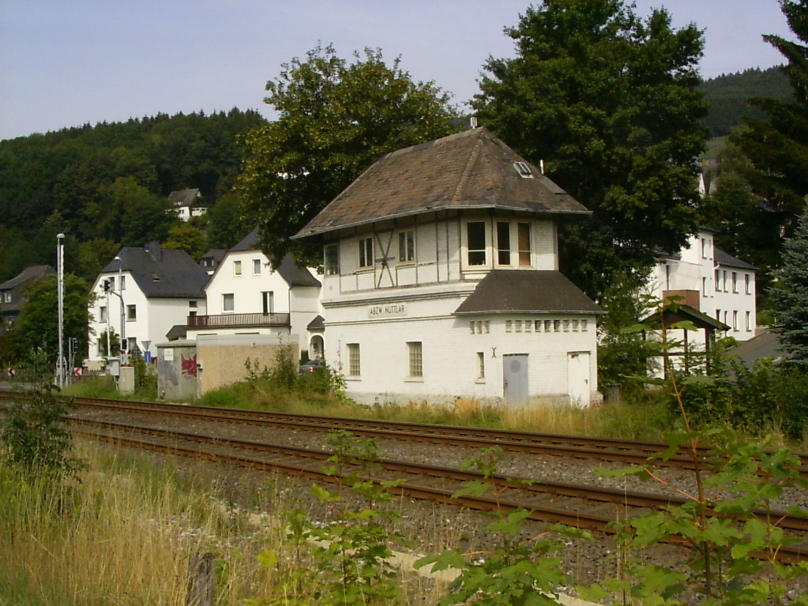 Signal box Nuttlar Junction